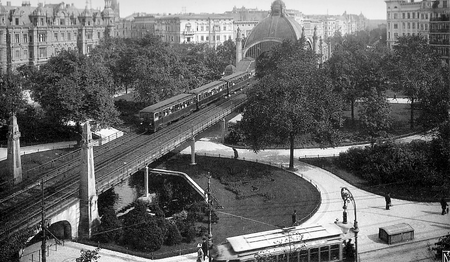 The Nollendorfplatz in Berlin, 1907. View to subway-station.